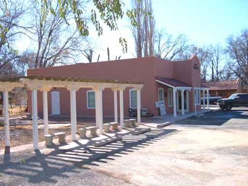 Tularosa Public Library building and ramada, located at 515 Fresno Street in Tularosa, New Mexico. The building was completed in November 2006 and is dedicated "In Remembrance of Jose & Lupe Bernal".